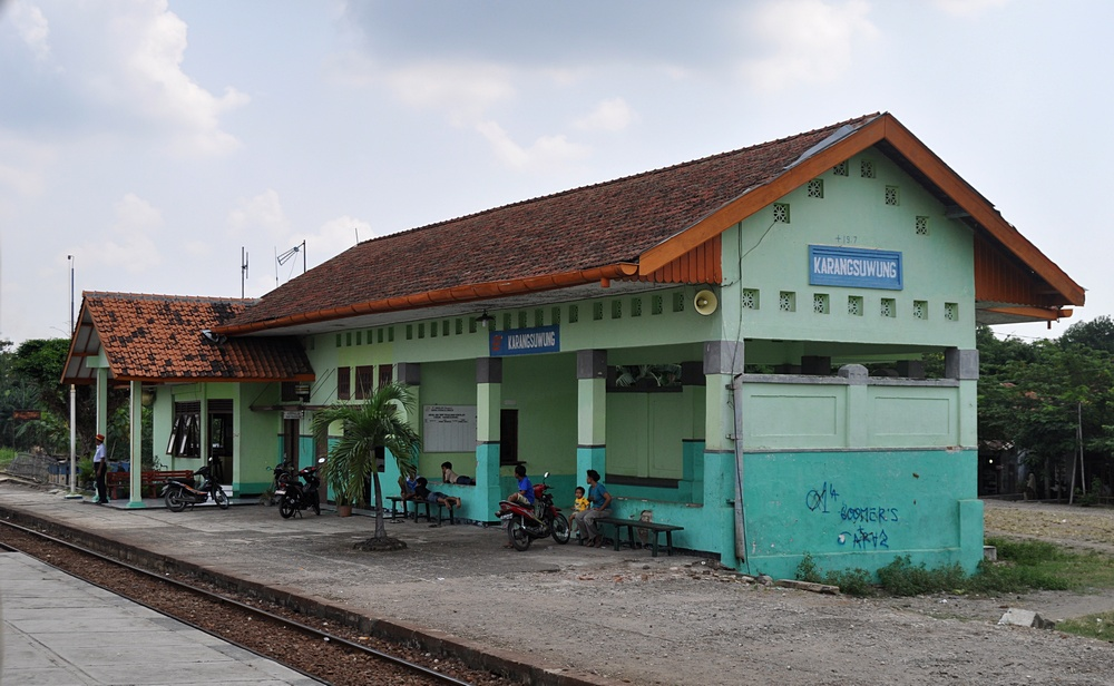 Karangsuwung train station in Cirebon, West Java